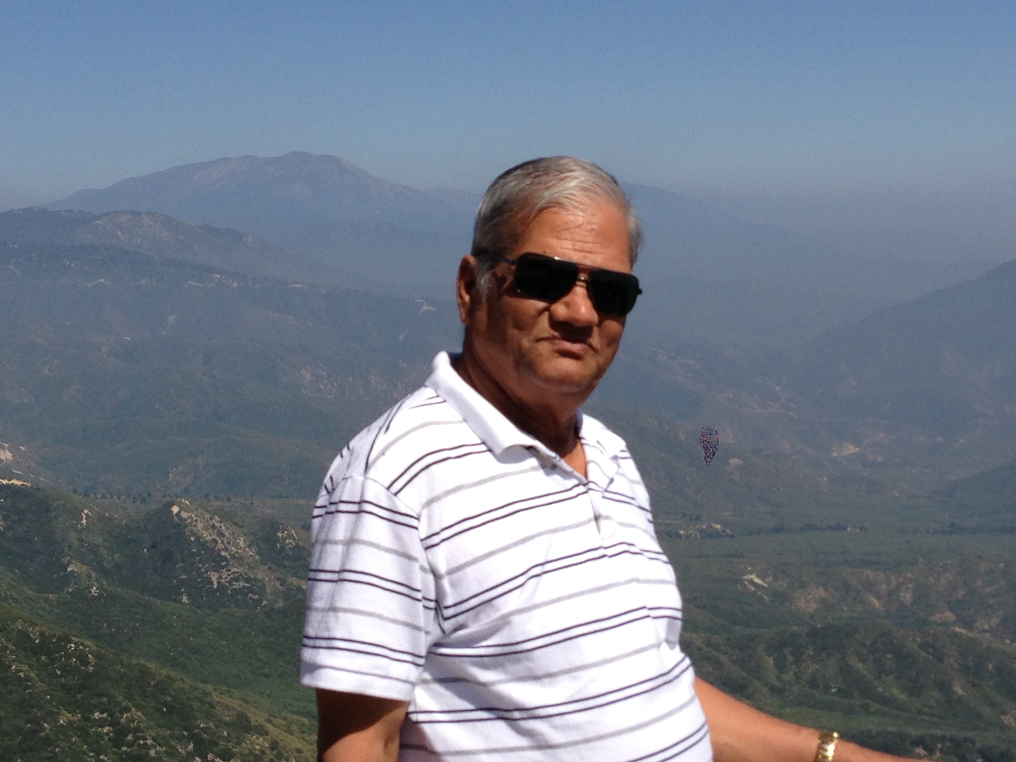 Hari Joshi during a recent visit to California